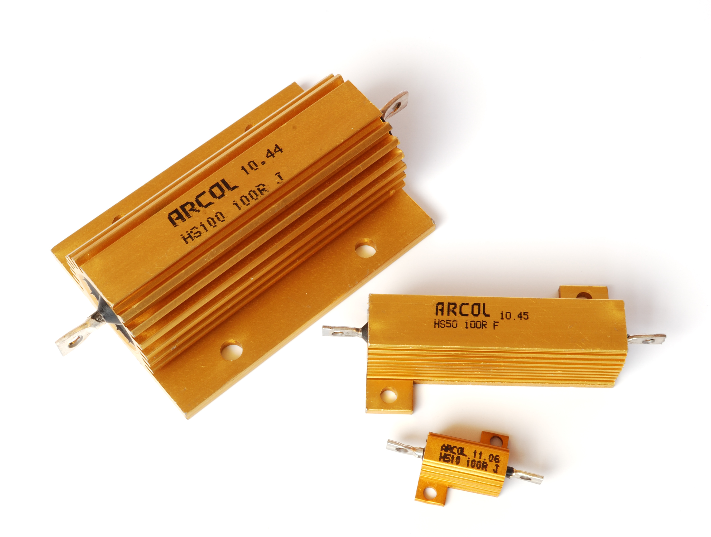 Three aluminium housed 100 Ohm resistors of different sizes for high heat dissipations: a) HS-10 for maximum 10 Watt, dimensions (L x W x H): 15.9 mm x 8.5 mm x 8.8 mm b) HS-50 for maximum 50 Watt, dimensions (L x W x H): 49.1 mm x 14.2 mm x 14.8 mm c) HS-100 for maximum 100 Watt, dimensions (L x W x H): 65.2 mm x 27.3 mm x 24.1 mm